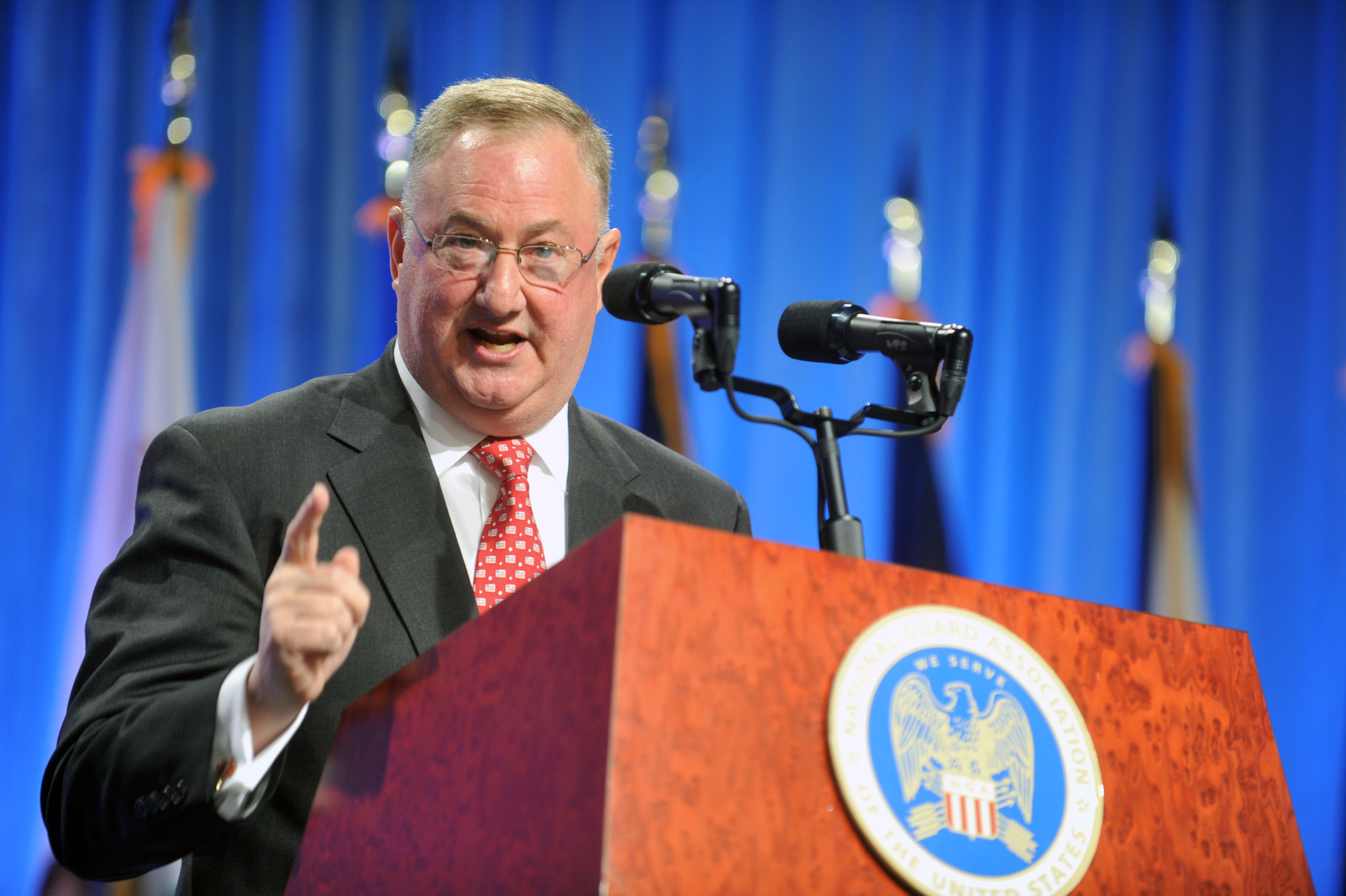 Retired Marine Maj. Gen. Arnold Punaro, chair of the Reserve Forces Policy Board, addresses the 134th National Guard Association of the United States General Conference in Reno, Nev., on Sept. 11, 2012.